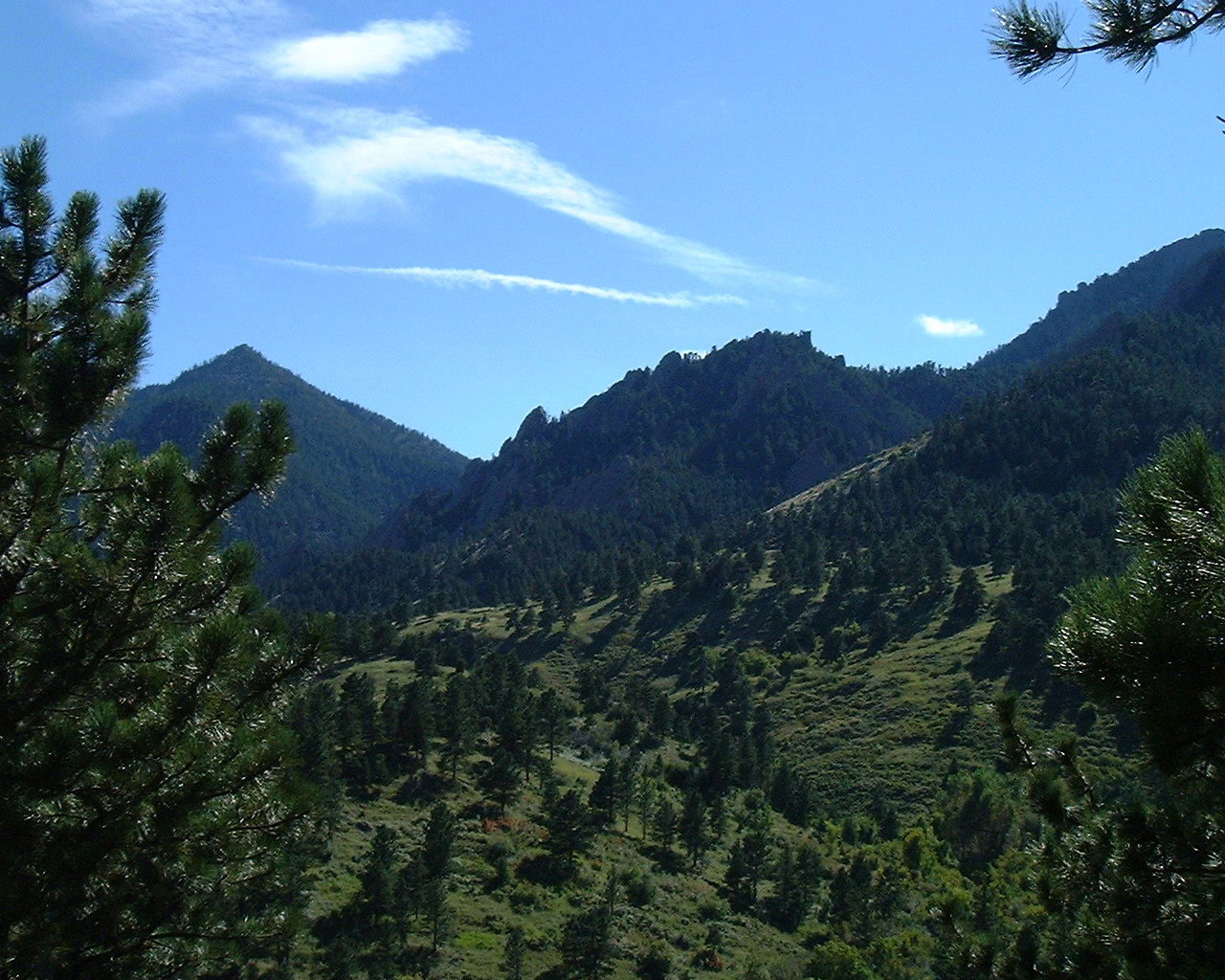 Mountains in Boulder County, Colorado, viewed from Green Mountain.